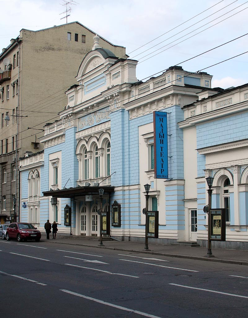 Second Stage of Maly Theater, Bolshaya Ordynka Street, Moscow